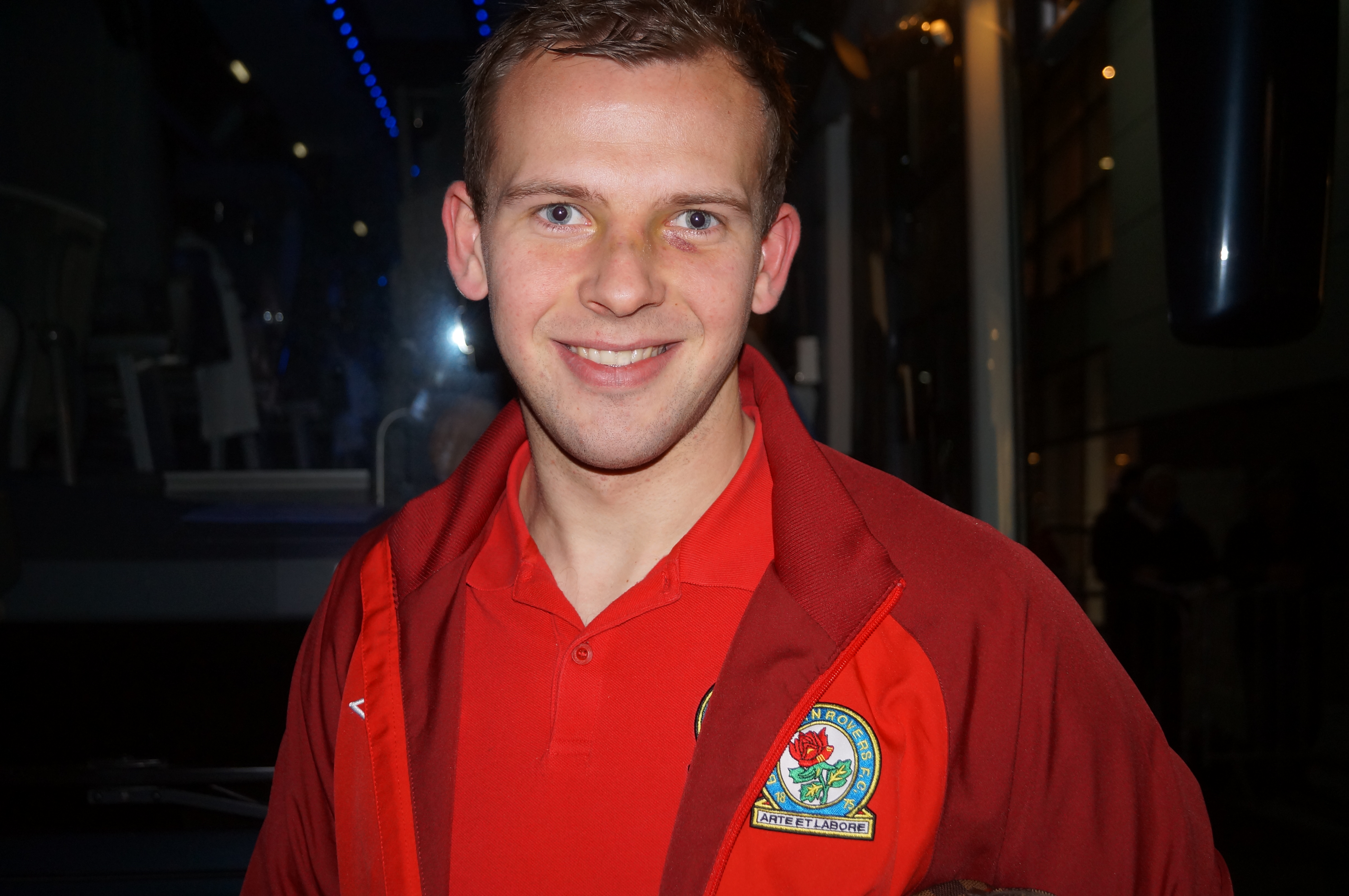 Jordan Rhodes posing for a picture 13/02/2013